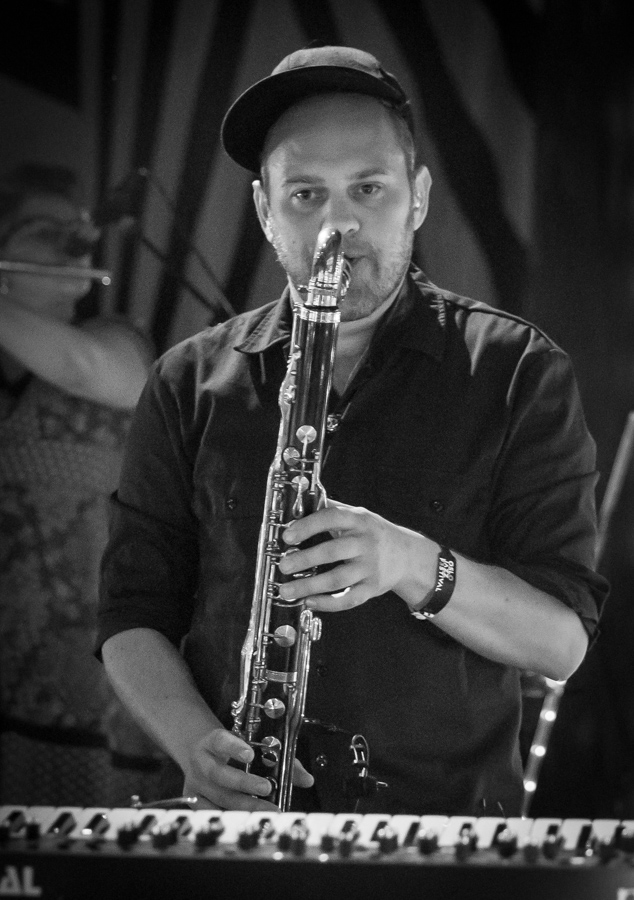 Lars Horntveth in Jaga Jazzist at the stage of Sentralen. The concert was part of the Oslo Jazz Festival in Norway and took place on 16. August 2016. Lineup: Morten Horntveth (drums) Marcus Forsgren (guitar) Andreas Mjøs (vibraphone) Lars Horntveth (guitar) Line Horntveth (flute) Erik Johannessen (trombone) Øystein Moen (keyboard)